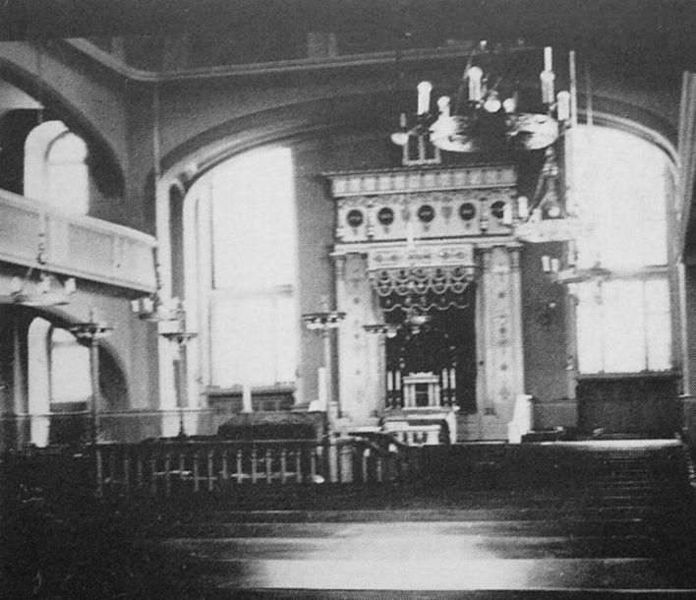 White Stork Synagogue in Wrocław